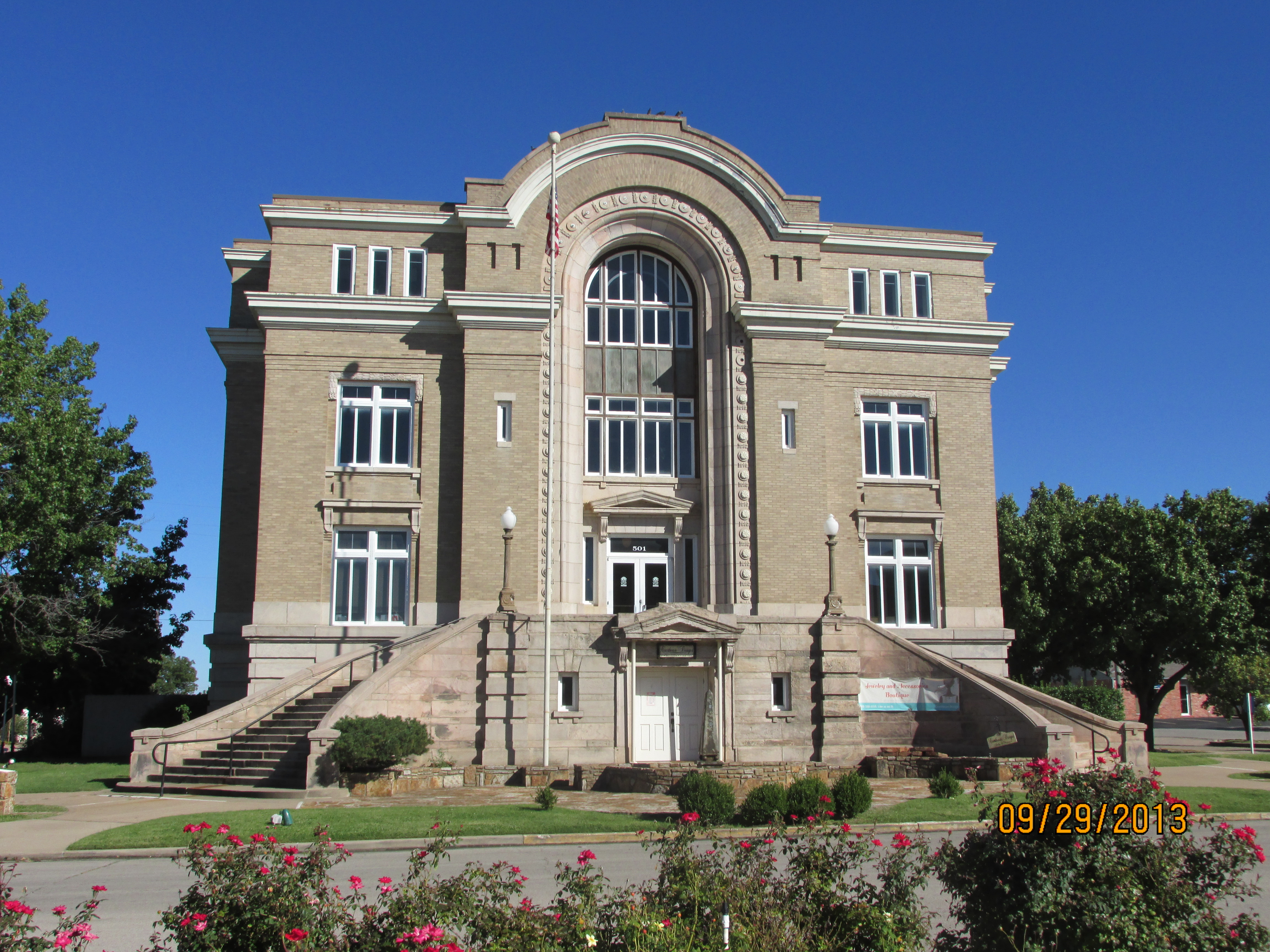 Old Washington County Courthouse — at 400 Frank Phillips Boulevard, in Bartlesville, Oklahoma.